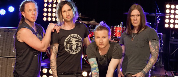 Shinedown Live on Walmart Soundcheck May 2012